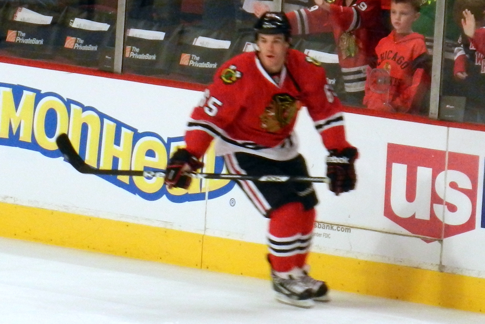 Andrew Shaw in a game vs, the Tampa Bay Lightning in the 2013-14 NHL season